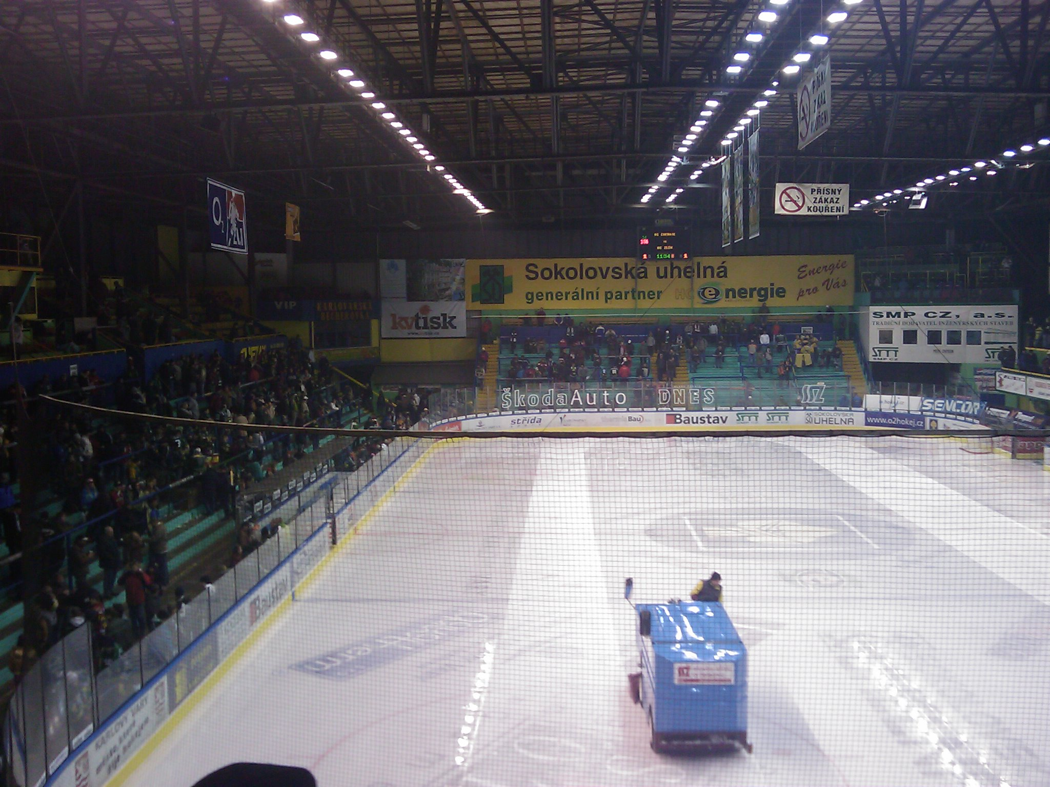 Ice hockey stadium Karlovy Vary